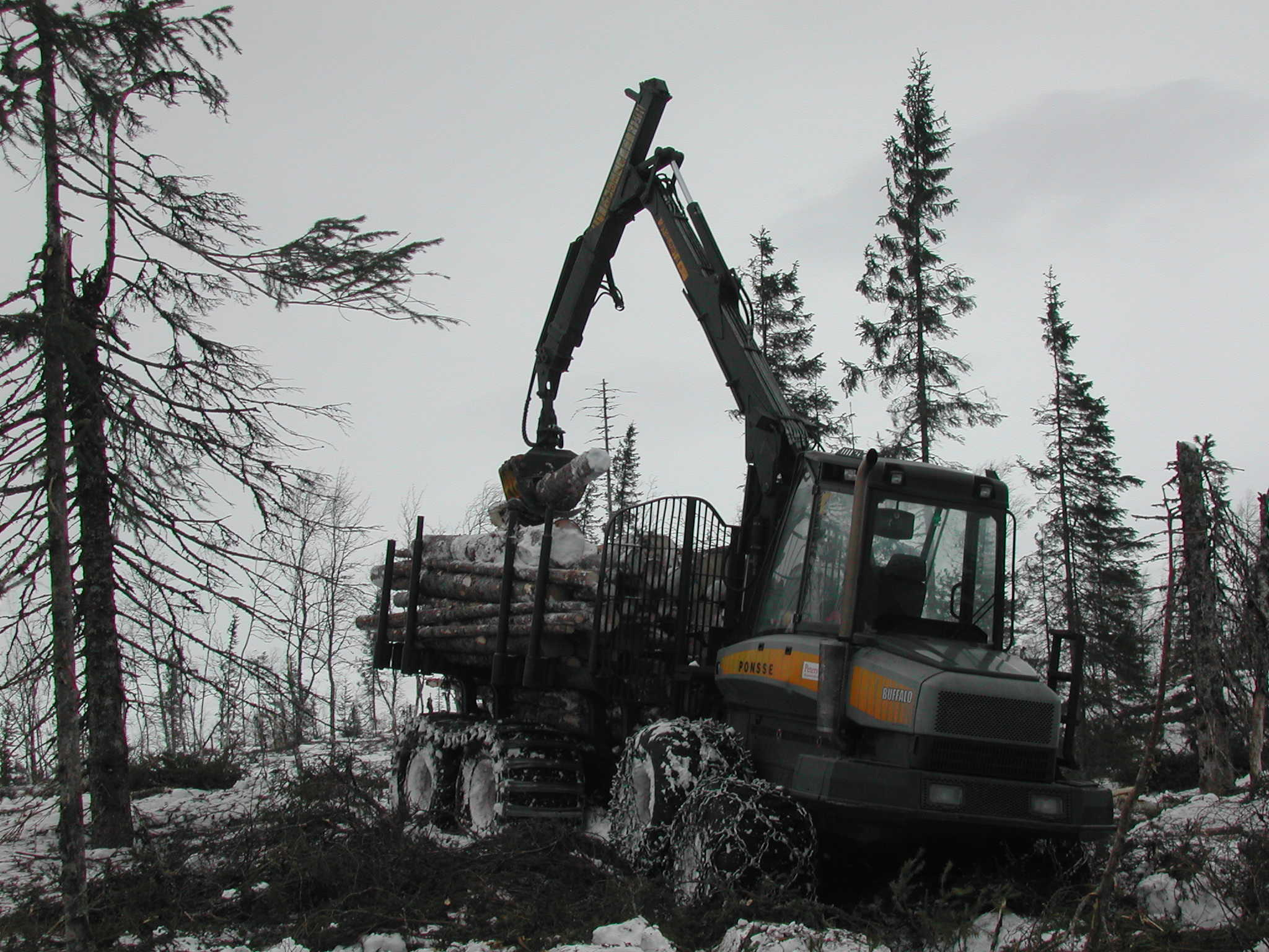 Ponnse Buffalo forwarder in a forest in Vefsn, Norway